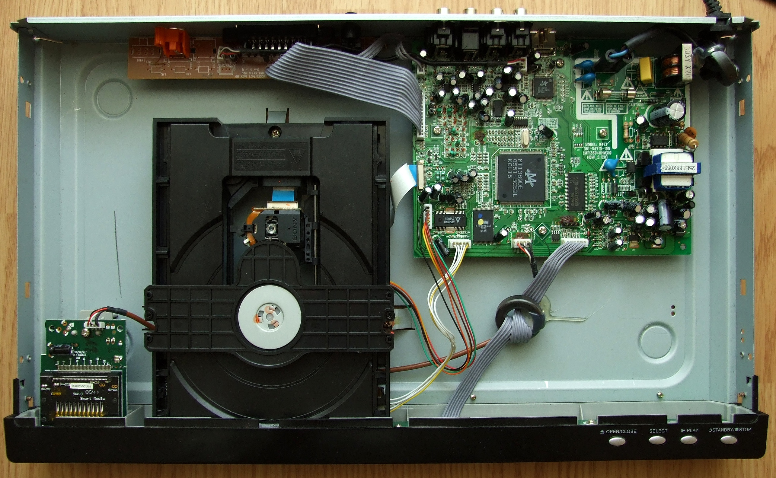 DK Digital DVD-1080 (open)